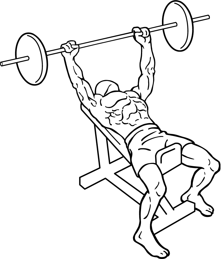 an exercise of chest